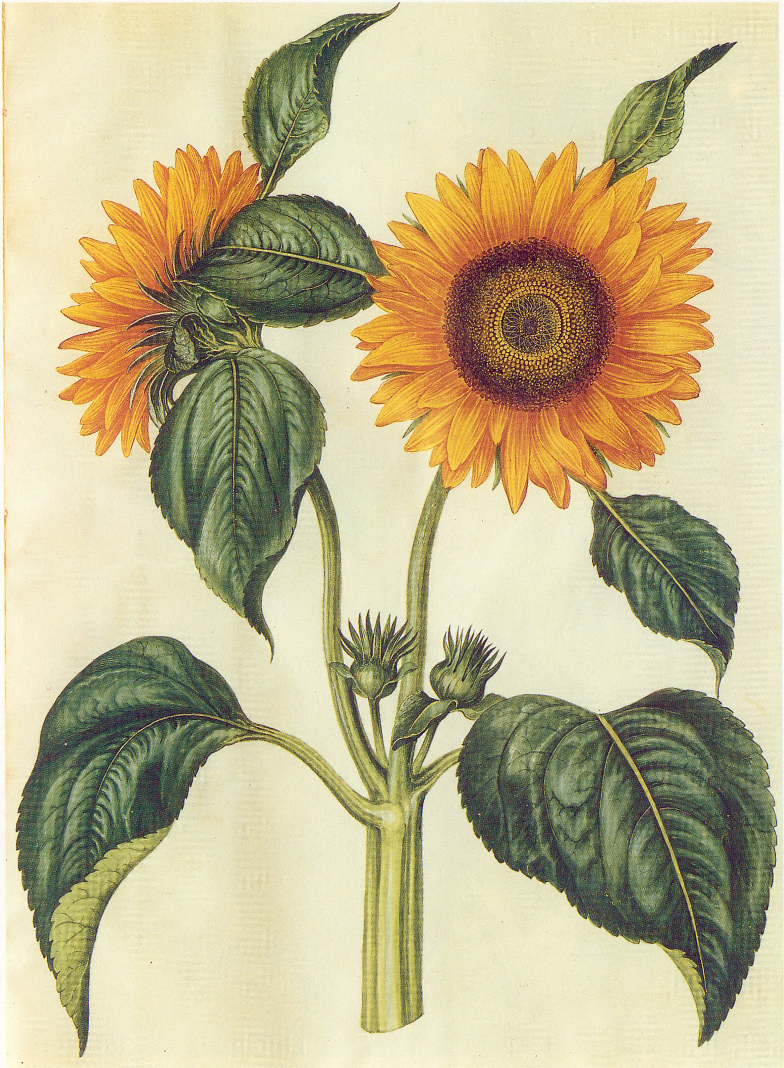 Helianthus_annuus, gouache on vellum, in: Gottorfer Codex